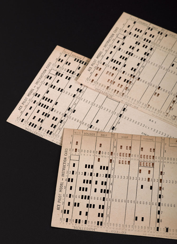 Punch cards in tray for Pilot ACE computer built at the National Physical Laboratory c. 1950. Detail view of cards against dark grey background.